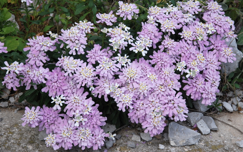 Gibraltar Candytuft taken in April 2012